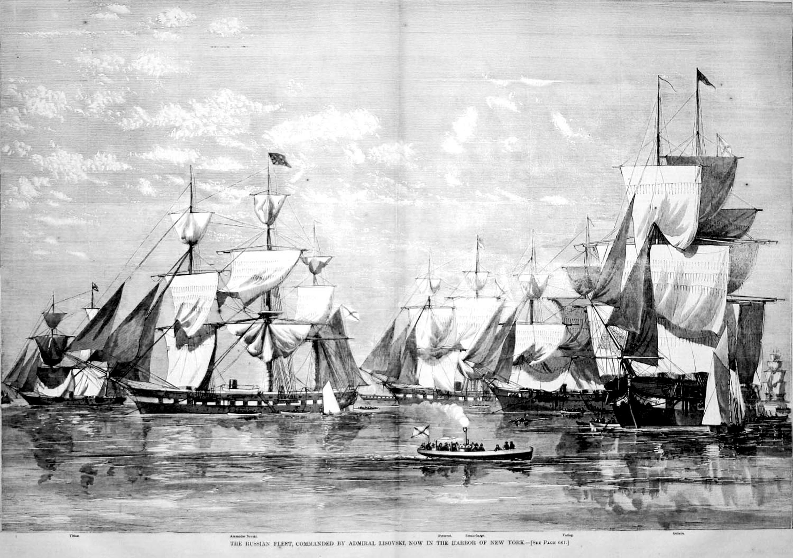 The Russian Fleet, Commanded by Admiral Lisovski, Now in New York Harbor. Harpers Weekly, 1863